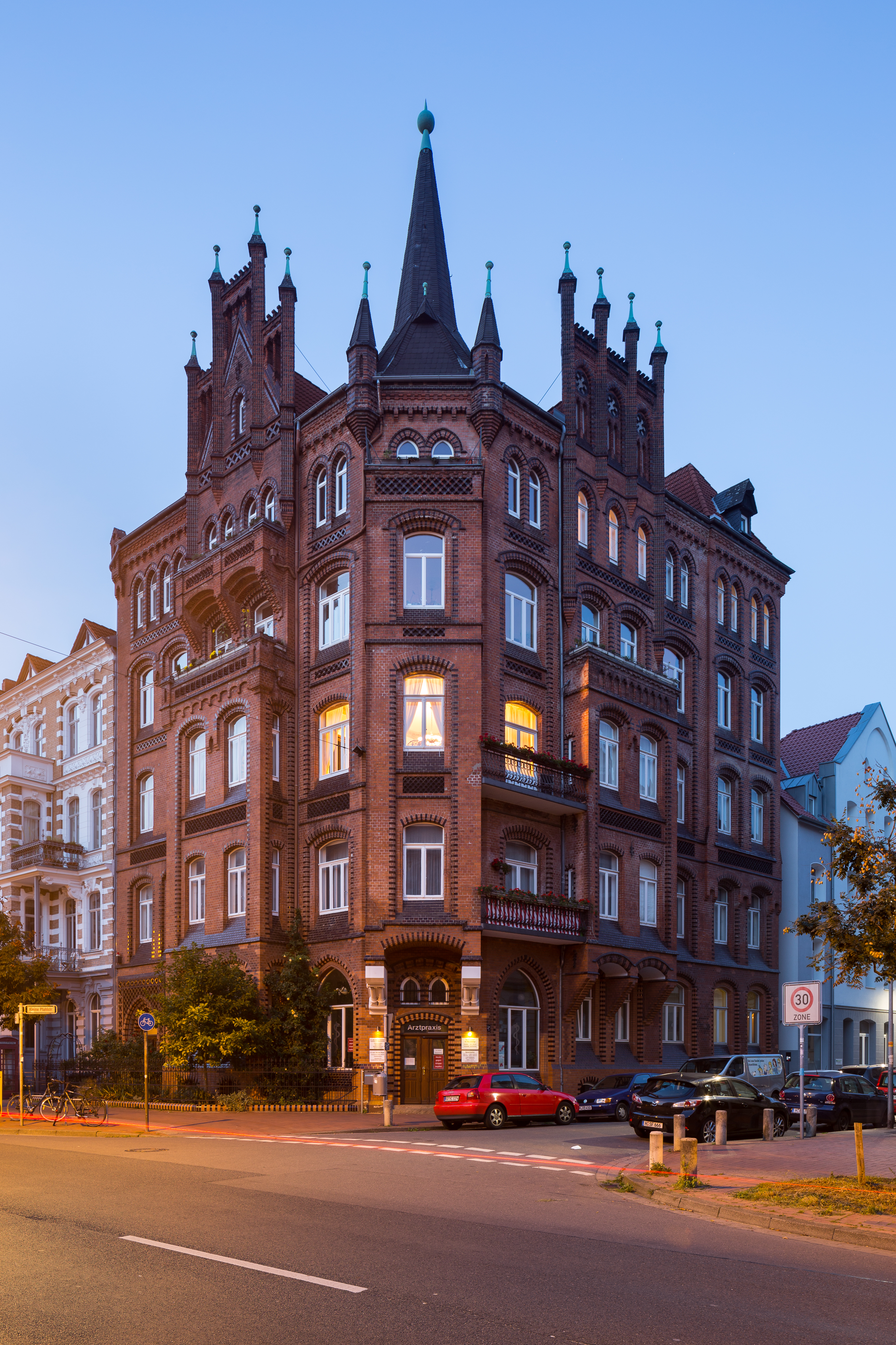 Apartment house located at Boedekerstrasse no. 58 in Oststadt quarter of Hannover, Germany.